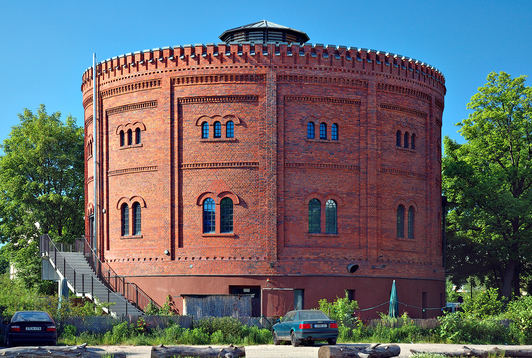 This image shows the old gasometer in Zwickau (Saxony, Germany).